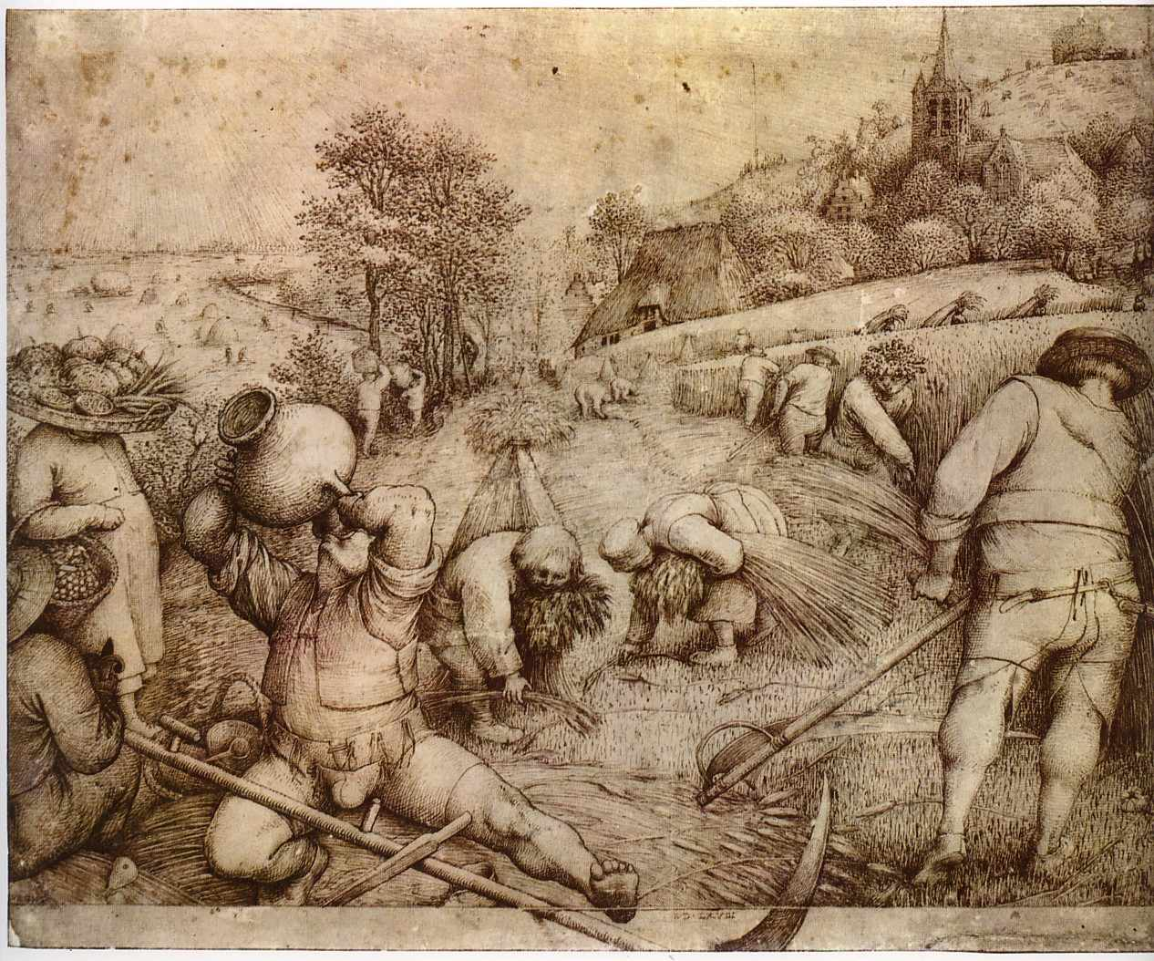 Work break